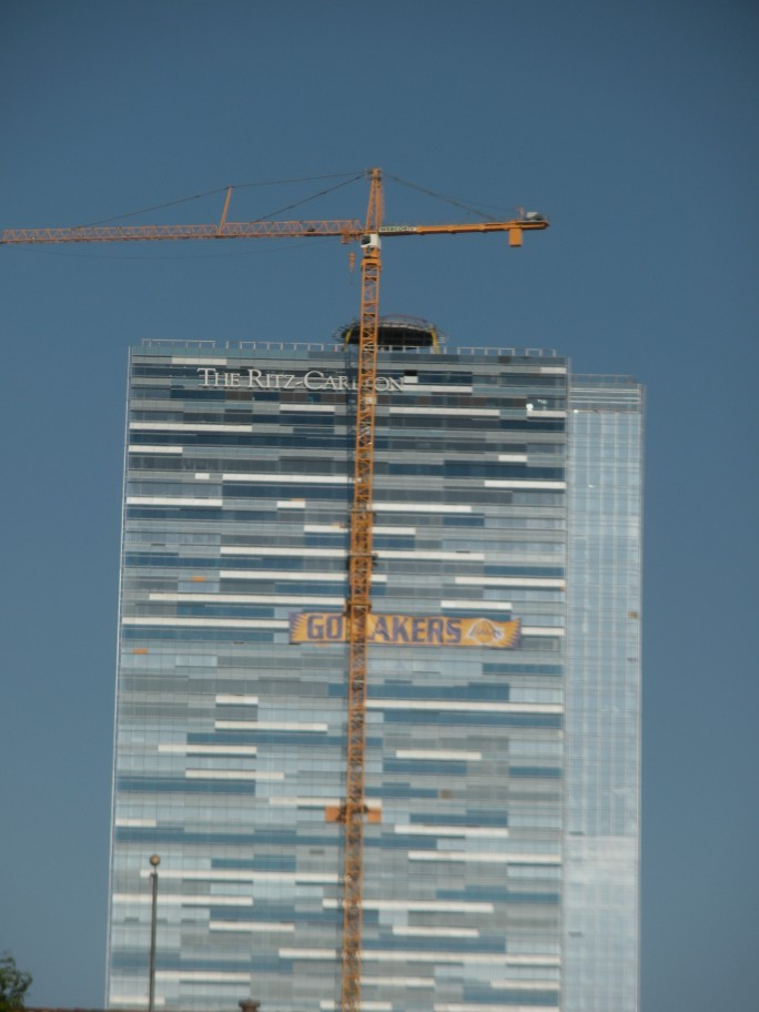 Ritz Carlton at LA Live, Los Angeles California